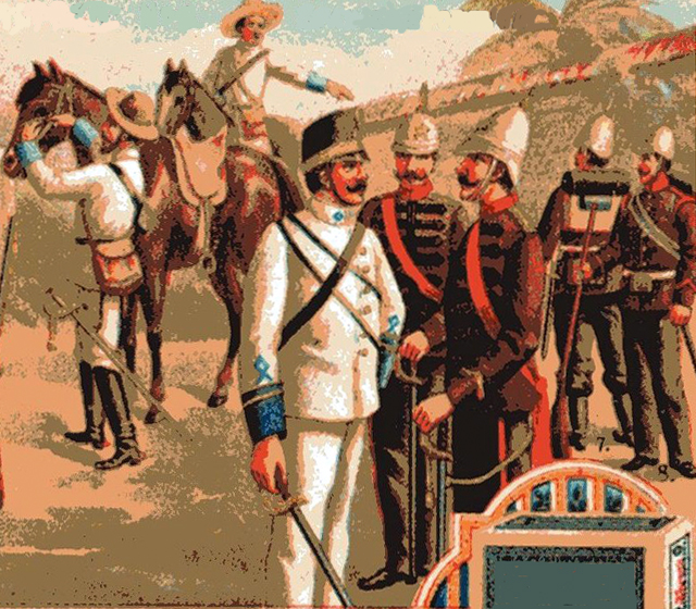 Portuguese Colonial Forces in uniforms of the Royal period (until 1910)